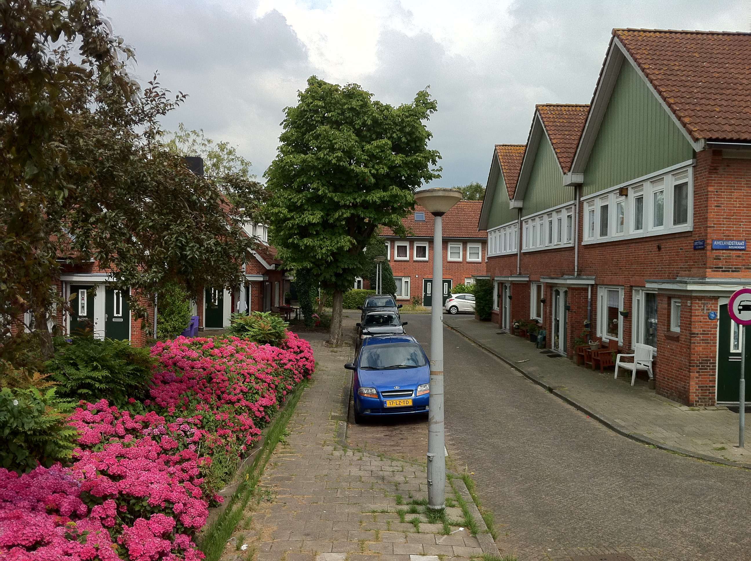 Tuindorp Buiksloot Amsterdam-Noord juli 2011